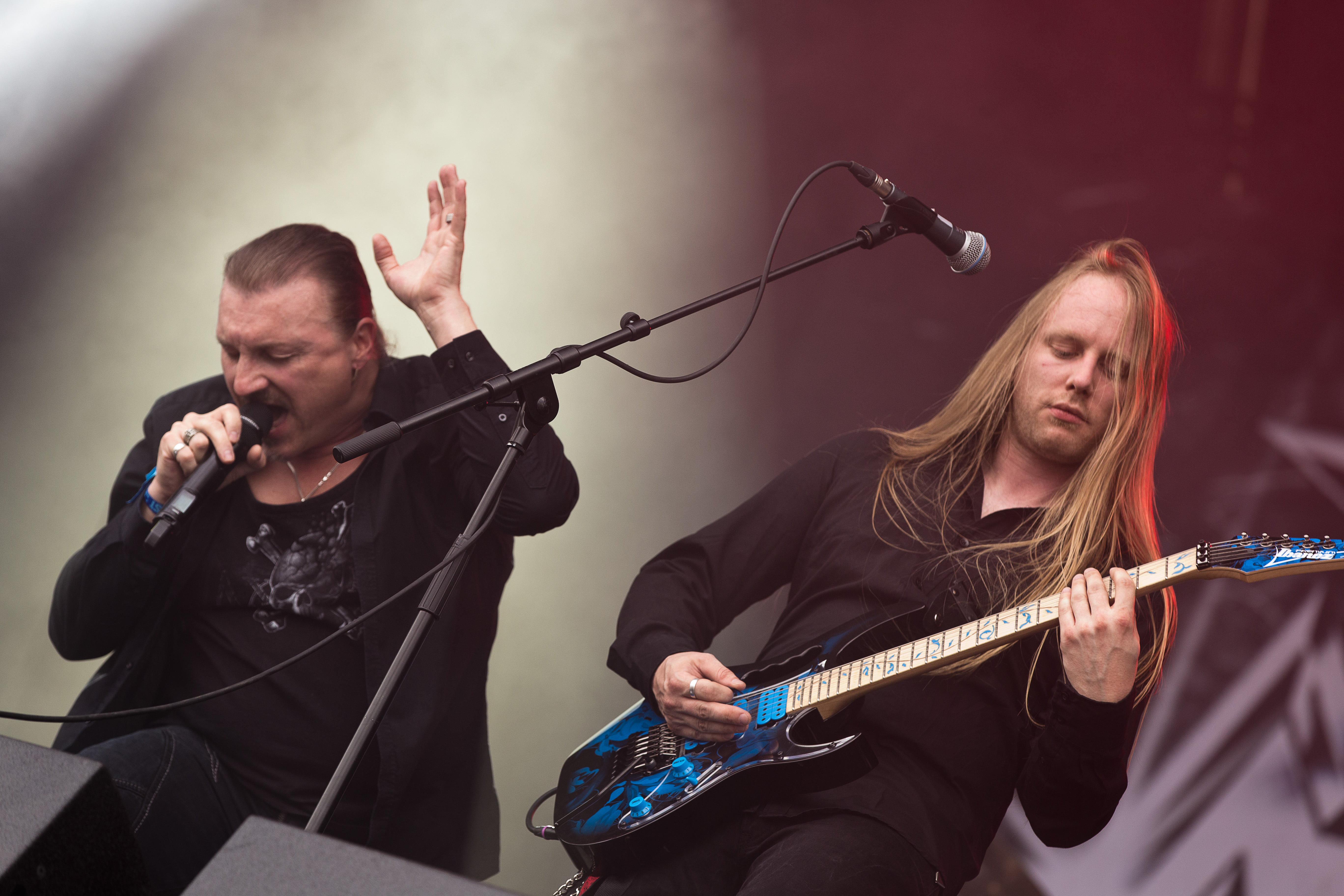 The German hard rock band Axxis at the Rockharz Open Air 2016 in Ballenstedt/Germany.